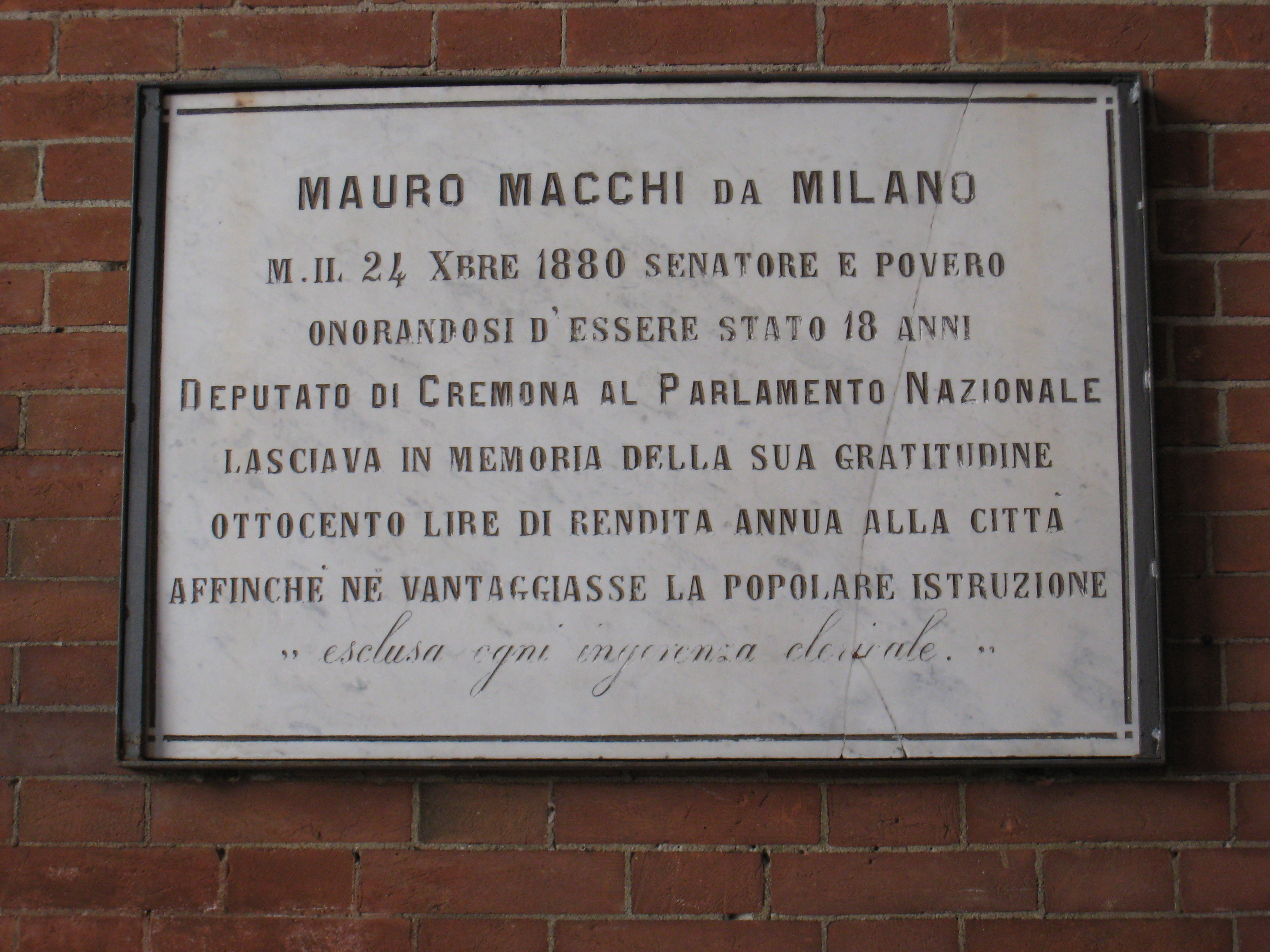 Stone dedicated to Mauro Macchi, Italian senator died in 1880. Cremona, Loggia dei Militi